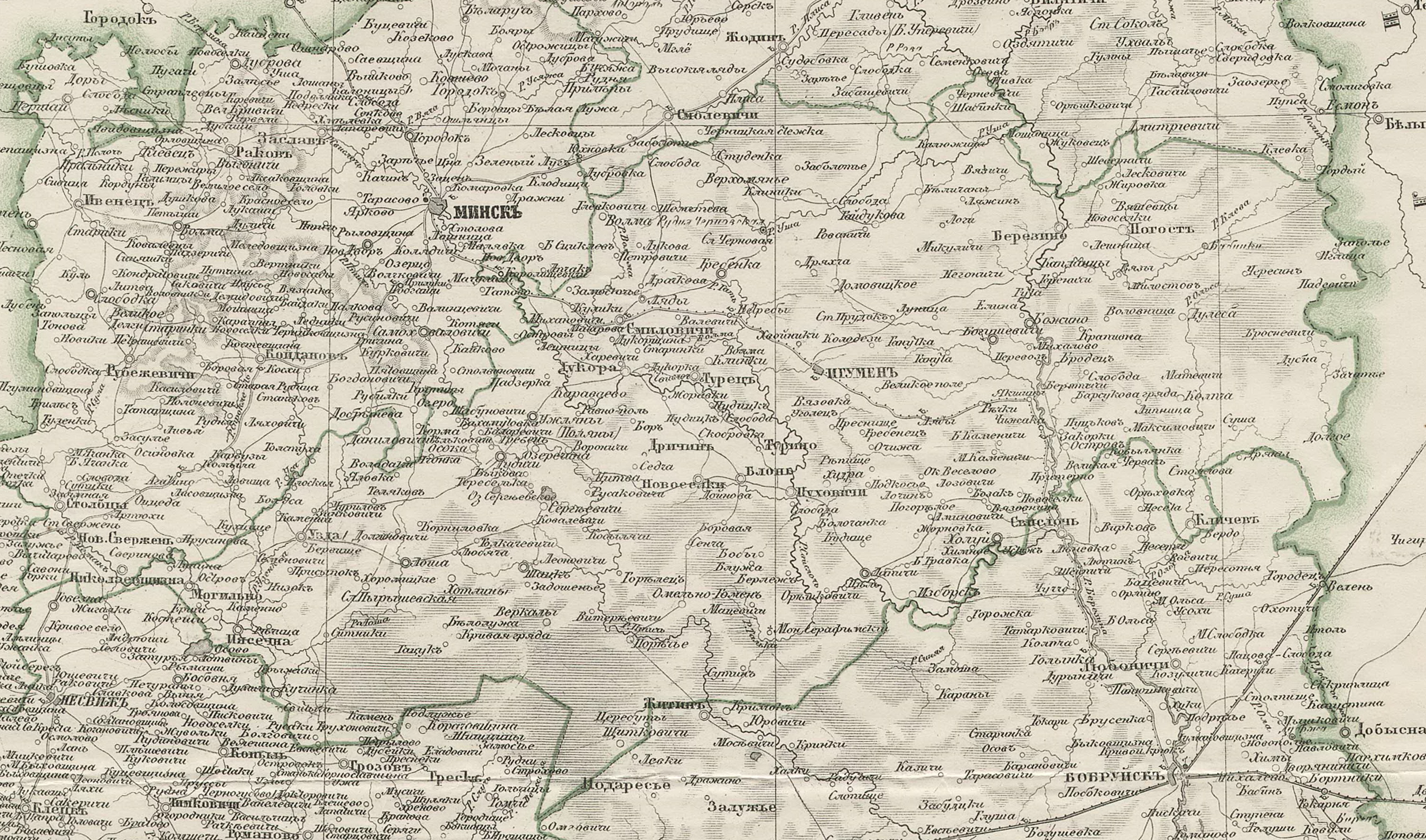 map of Igumen district (fragment of a map of Minsk region), 1864 AD